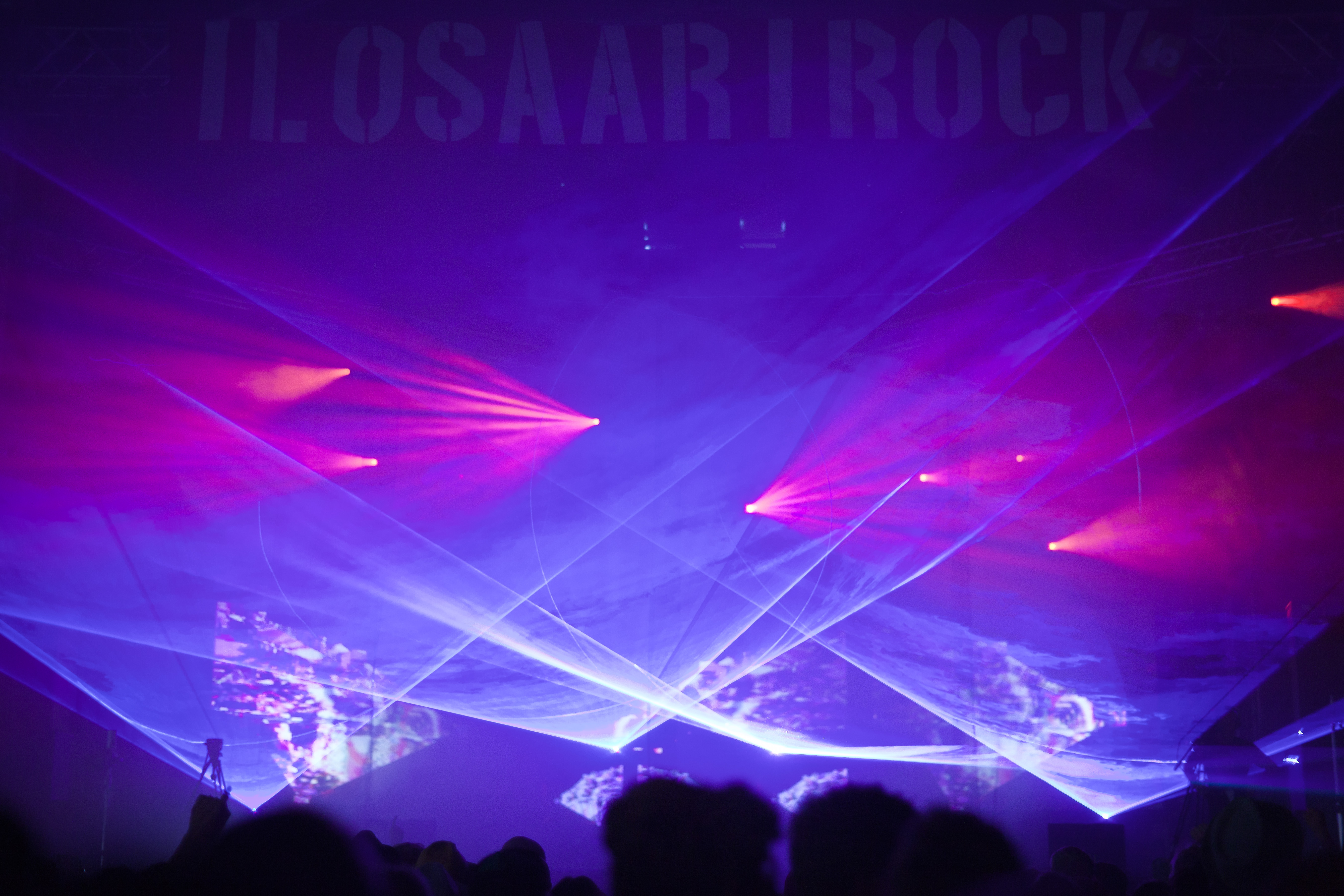 Aphex Twin at Ilosaarirock 2011